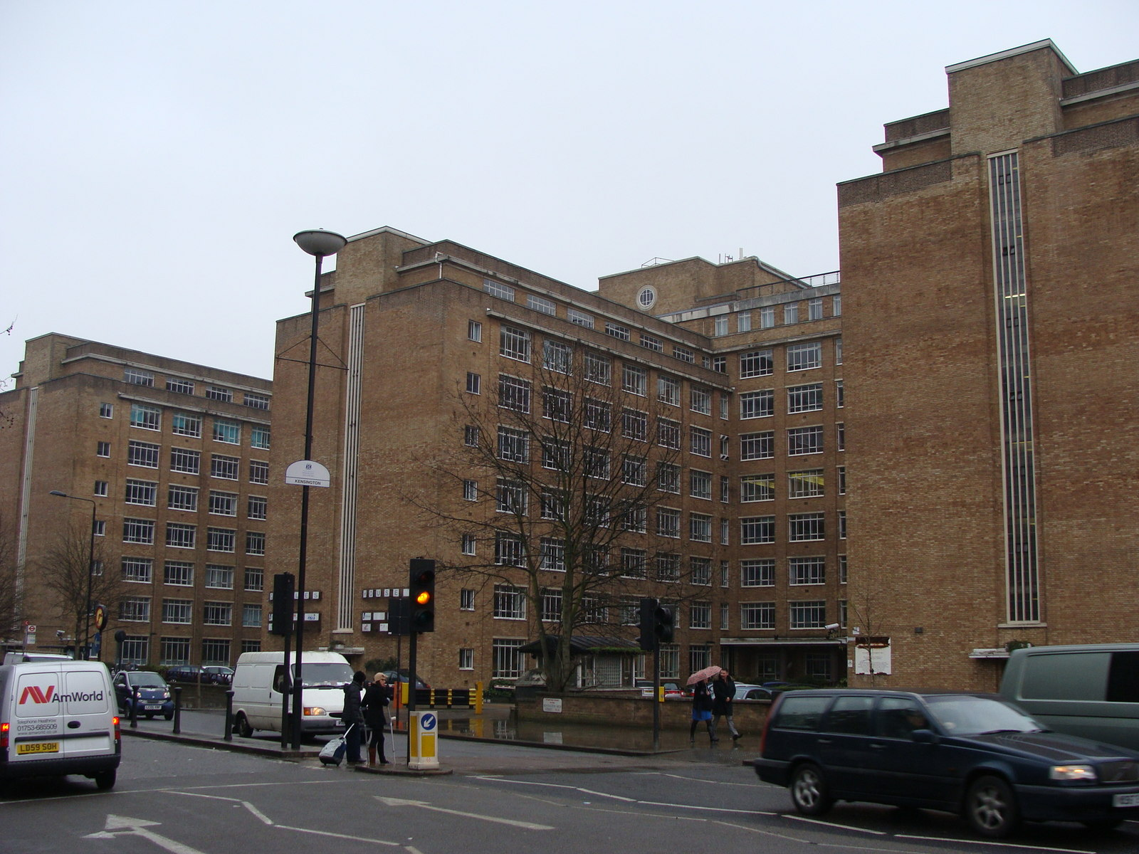 Charles House on a cold February day